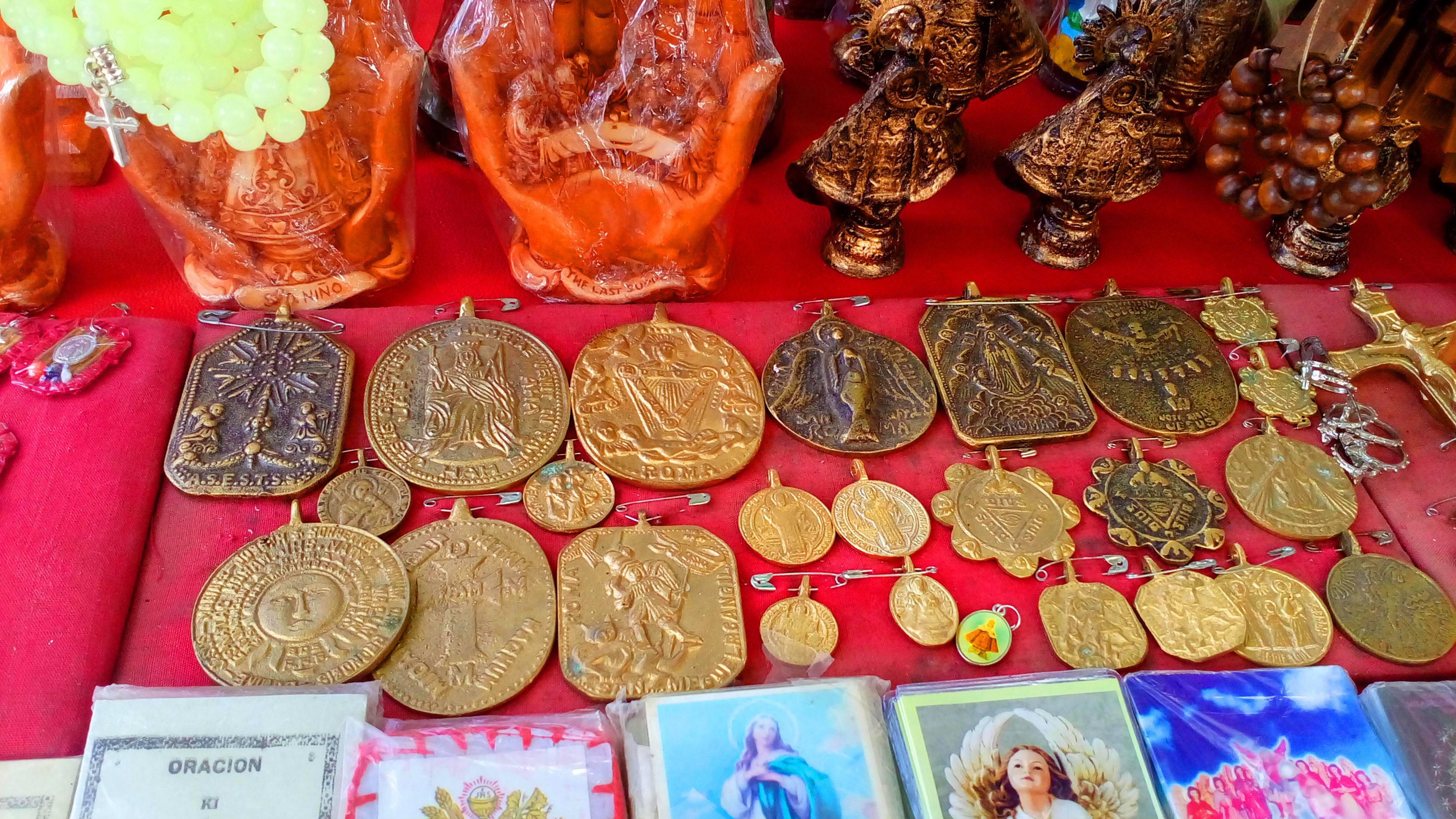 Anting-Anting pendant